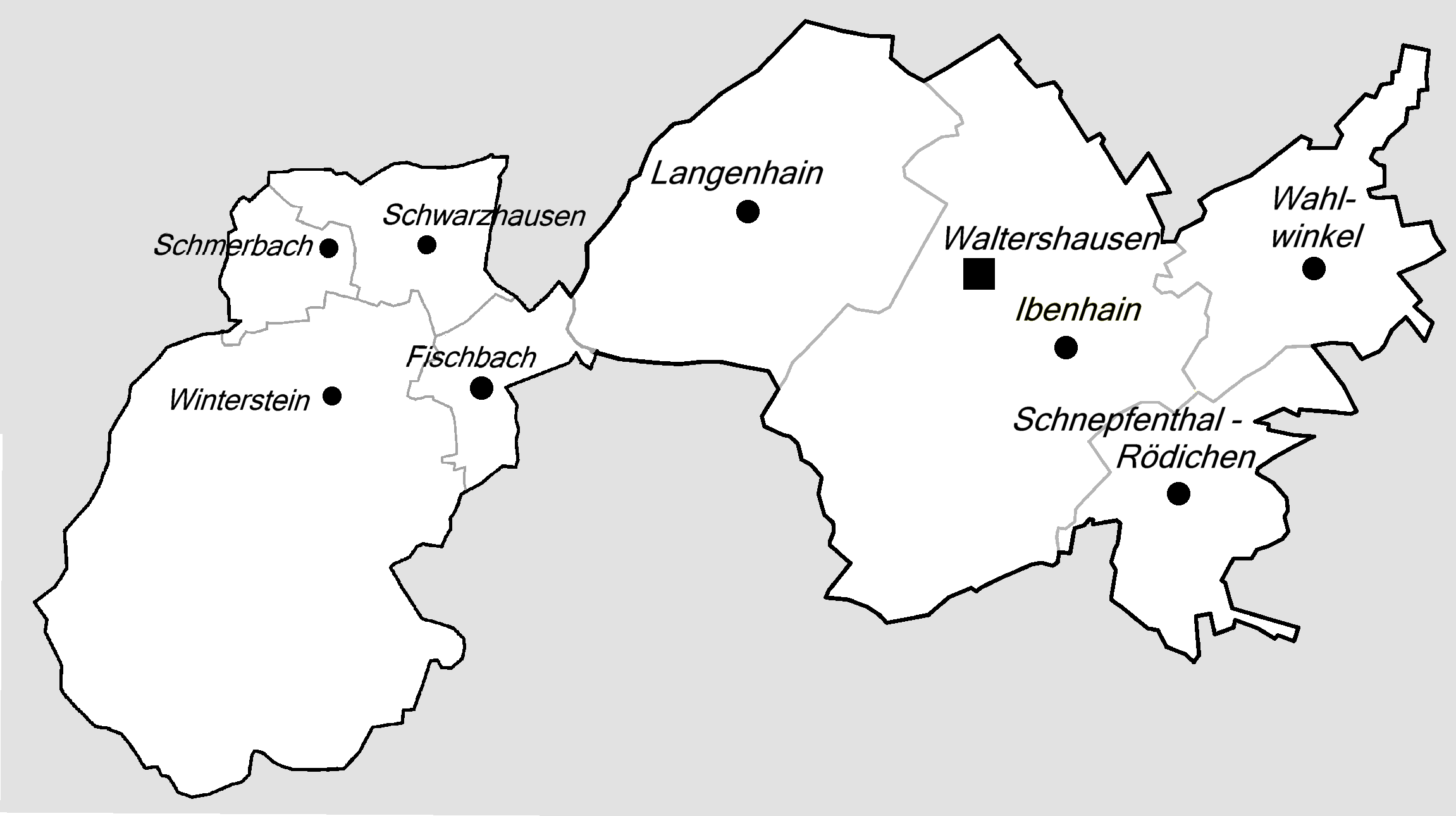 District-Map of Waltershausen.